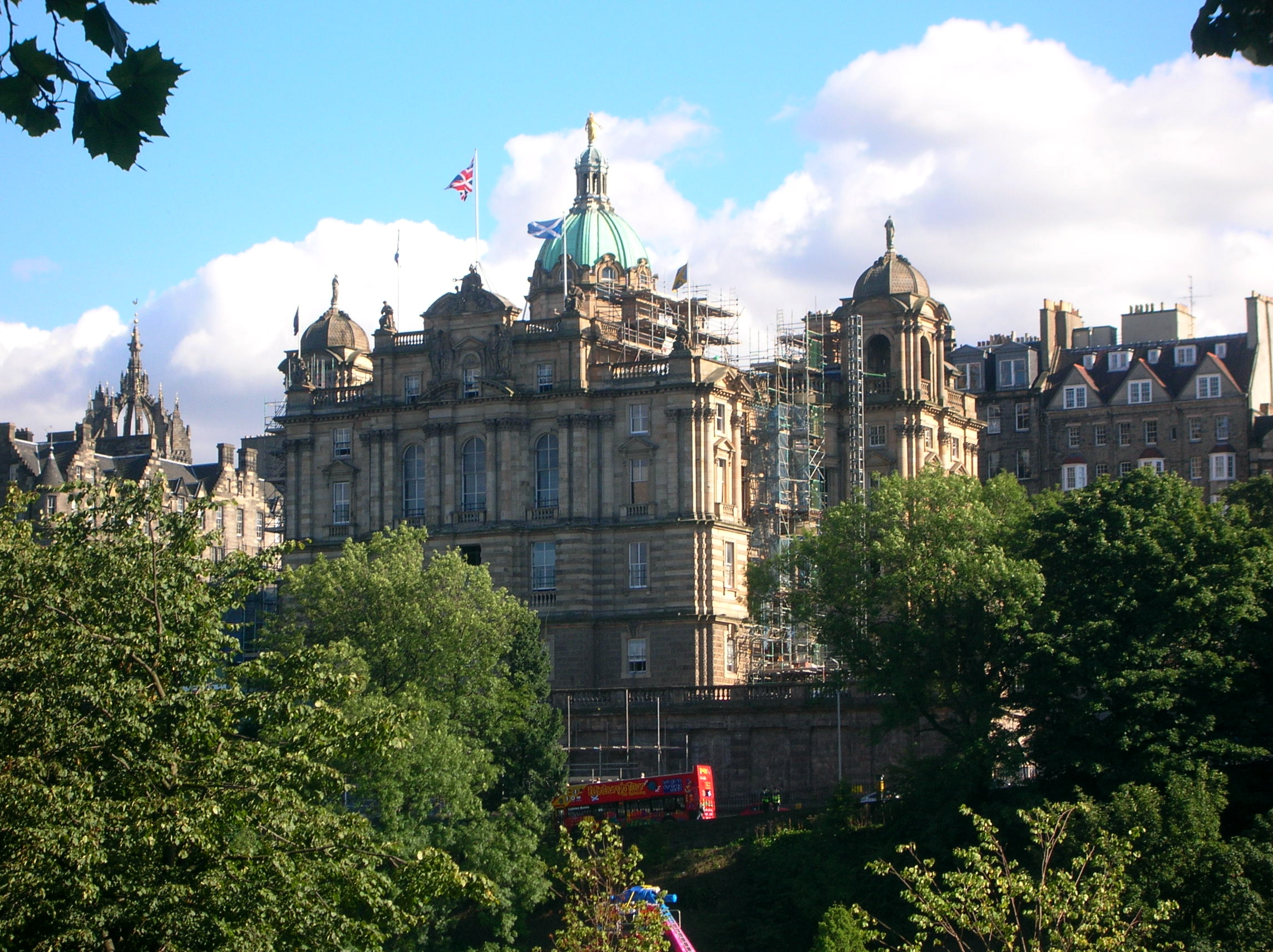 The headquarters of the HBOS plc in Edinburgh. Image taken by Maccoinnich July 2005